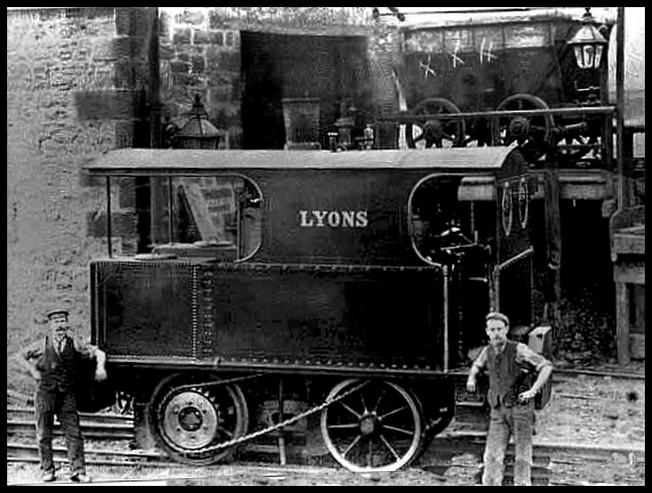 Smal vertical-boilered locomotive Lyons on the Hetton colliery railway